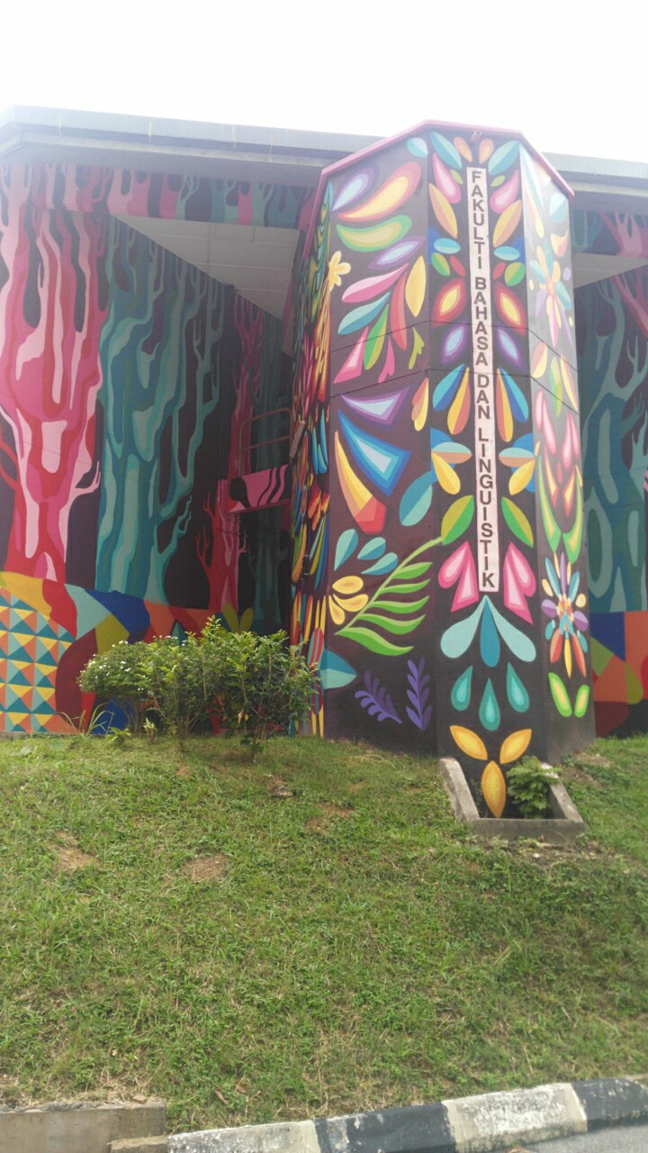 Artwork on the north side of the Faculty of Language and Linguistics building at the University of Malaya in Kuala Lumpur